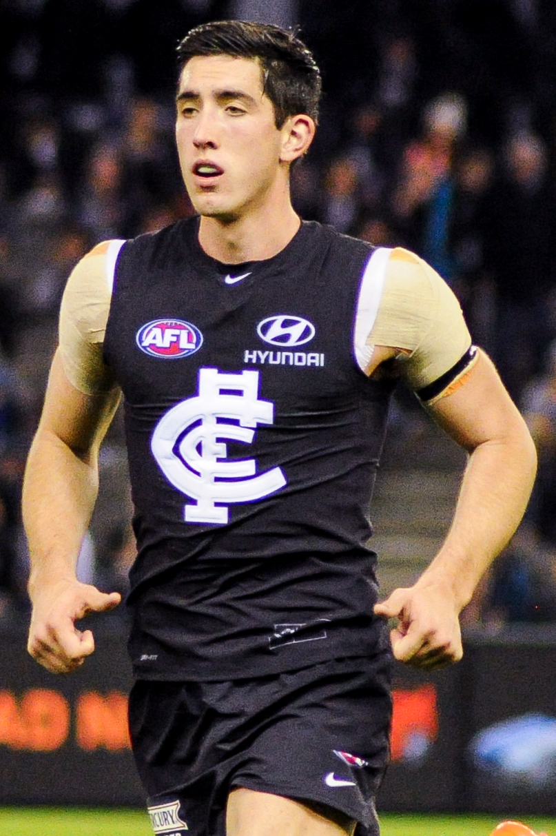 Jacob Weitering during the AFL round twelve match between Carlton and Greater Western Sydney on 11 June 2017 at Etihad Stadium in Melbourne, Victoria.